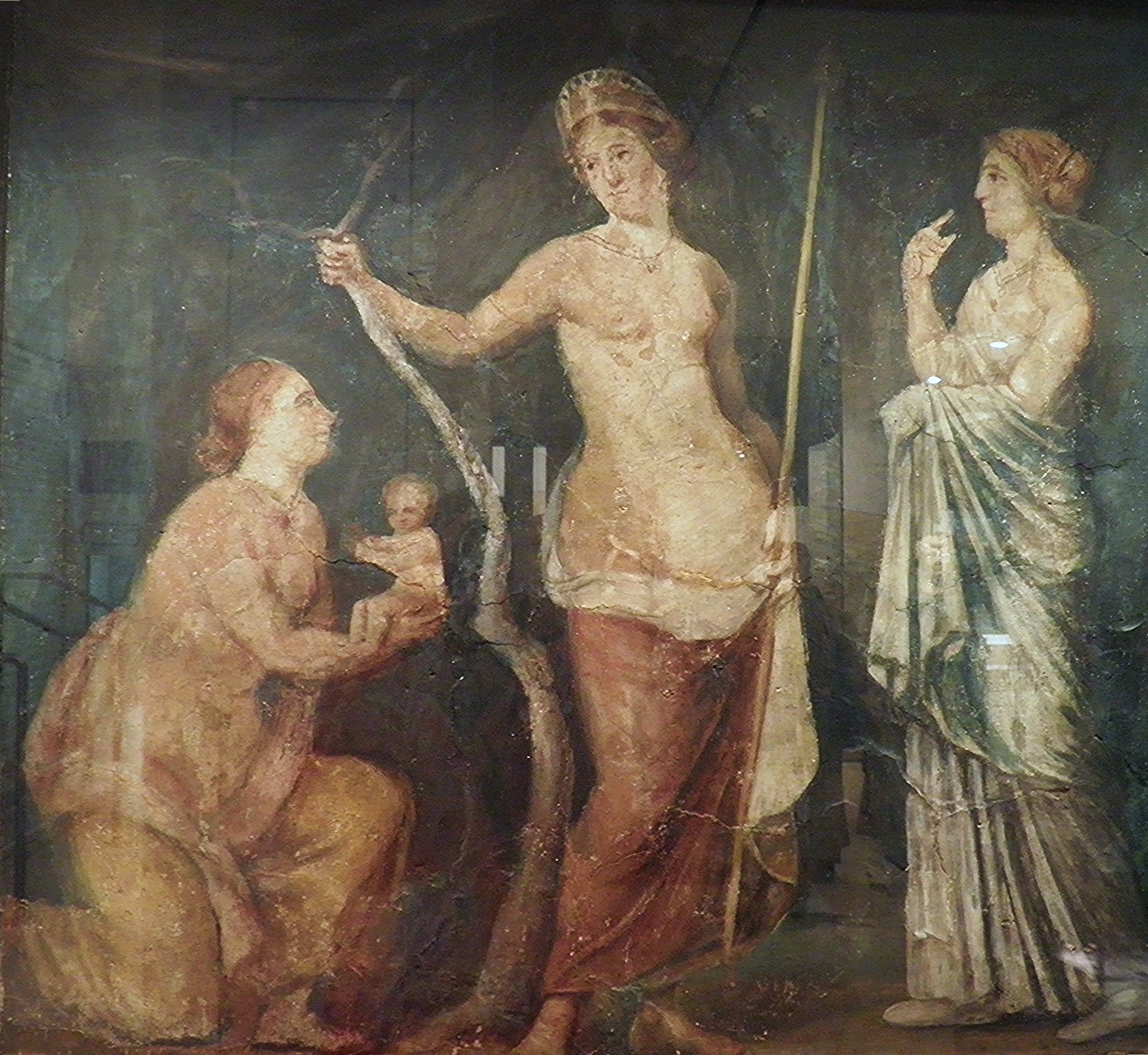 A woman, perhaps Lucina, goddess of childbirth, presents the goddess of love, Aphrodite (Roman Venus) with the beautiful infant Adonis. Aphrodite holds the myrrh tree from which Adonis was born. Aphrodite turned Adonis's mother Myrrha into a tree to save her own father, King Theias.